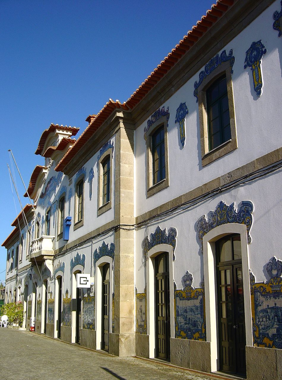 See where this picture was taken. [?]